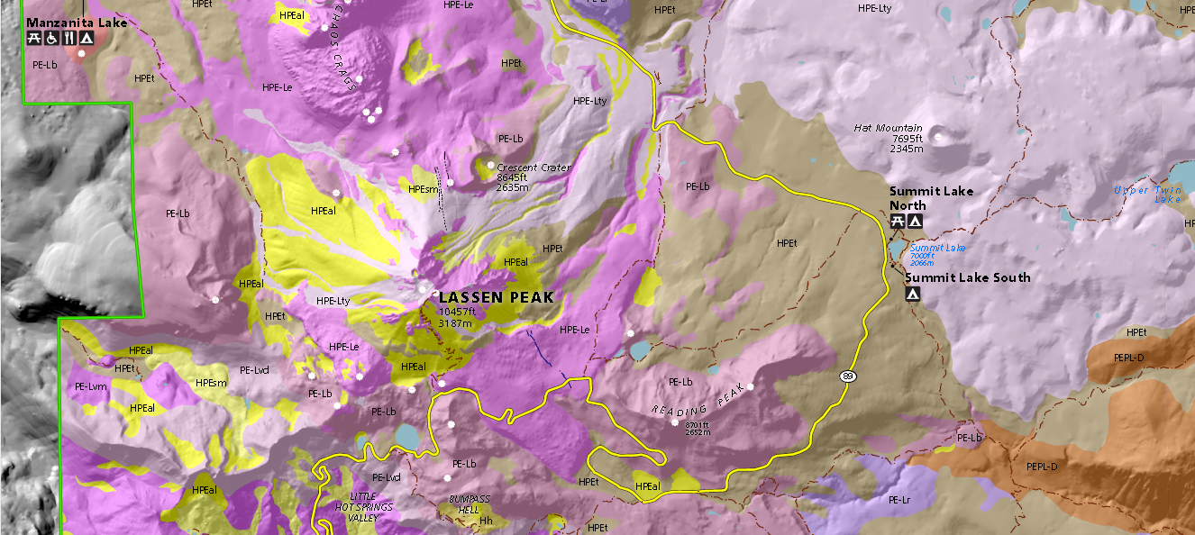 Lassen Peak geologic map, where and asterisk denotes a vent, HPE al is alluvium/talus/colluvium, HPE t is glacial deposits, till, PE-Lvd is the Brokeoff Volcano Diller Sequence, PE-Lb is the Bumpass Sequence, HPE-Le is the Eagle Peak Sequence, and HPE-Lty is the Twin Lakes Sequence